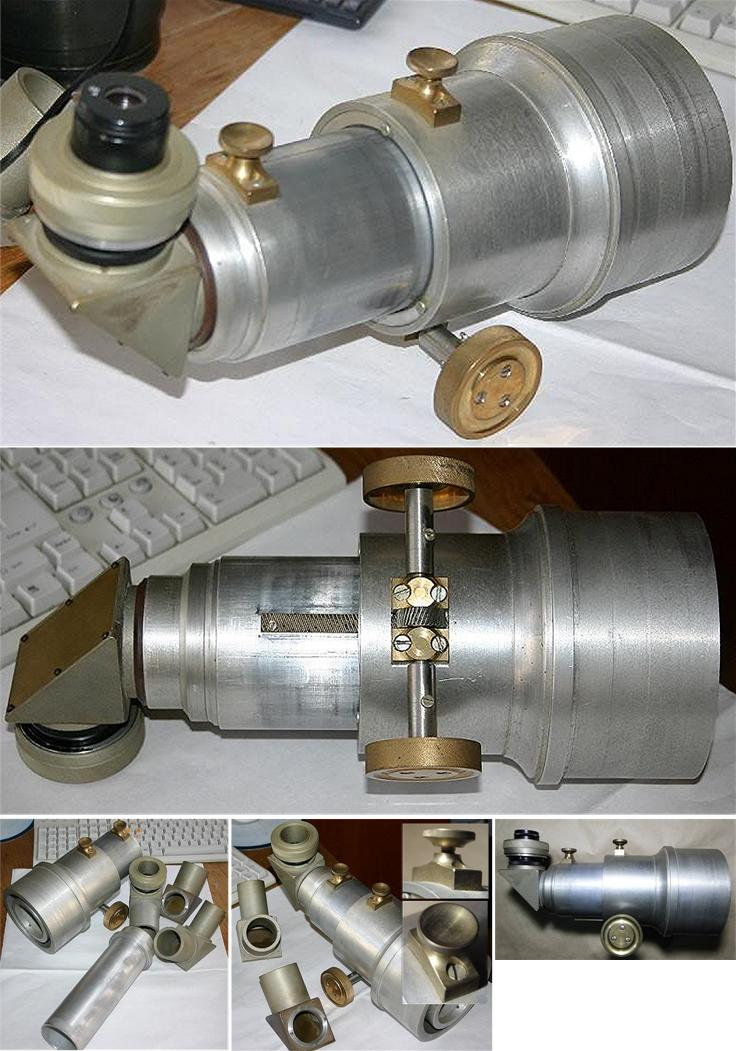 Telescope focuser.